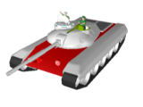 Tank body stressed